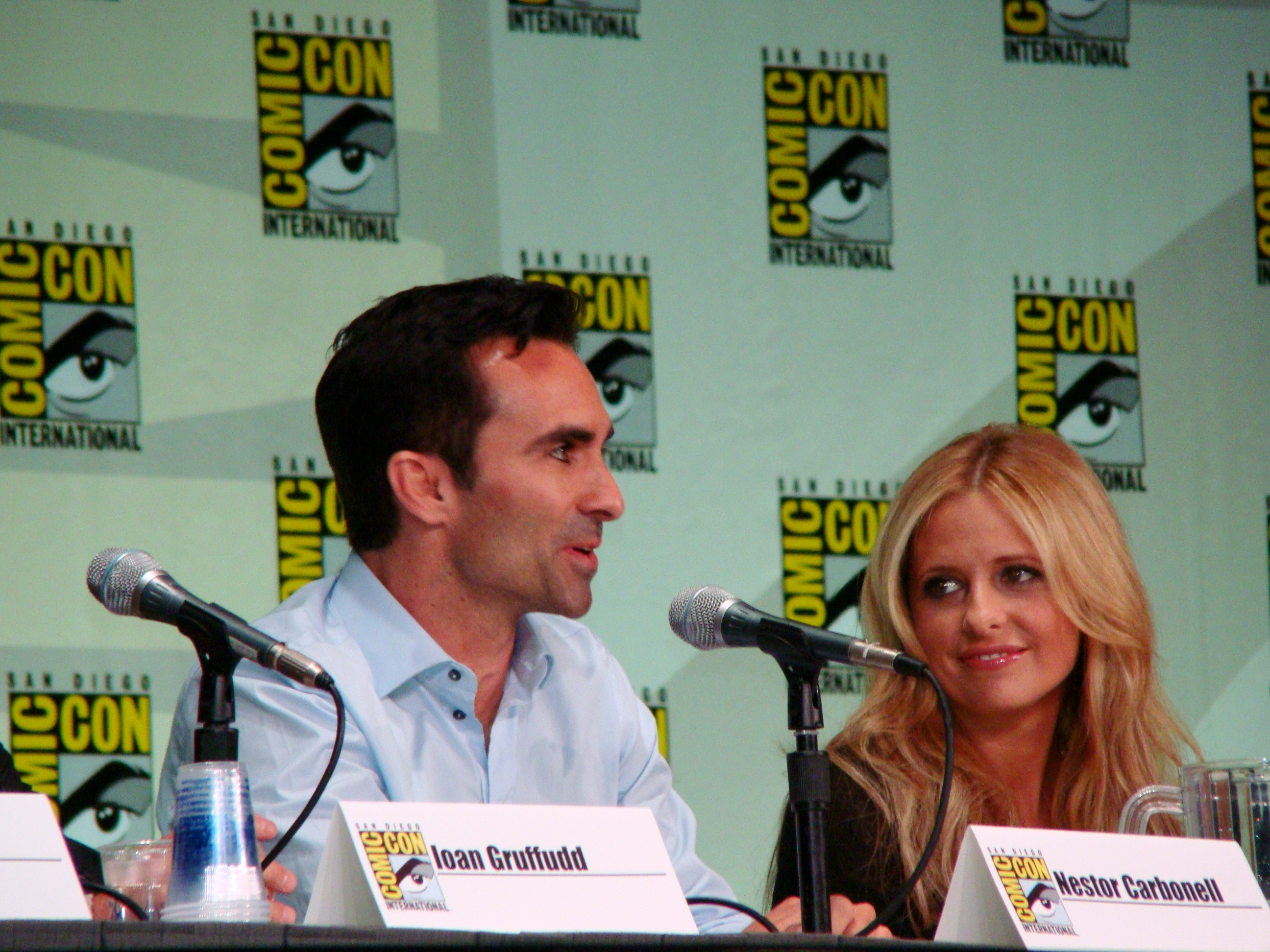 Nestor Carbonell and Sarah Michelle Gellar at Ringer Panel at the 2011 Comic-Con International